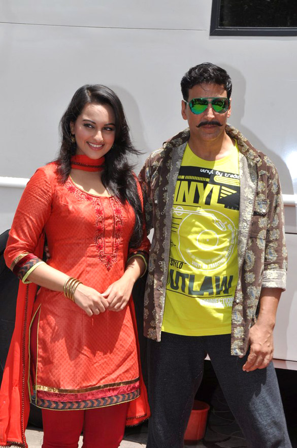 Akshay and Sonakshi promote 'Rowdy Rathore' on the sets of CID